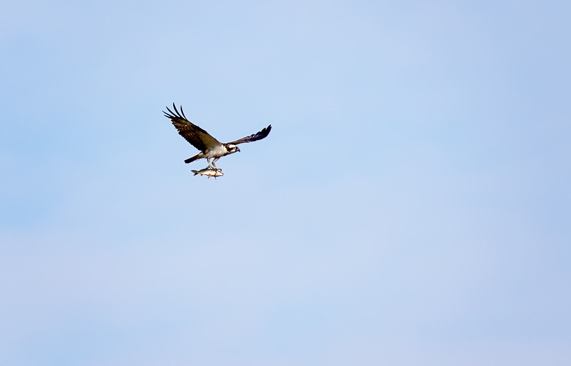 Osprey in flight with its pray. Spotted in Delta Neajlovului, Romania